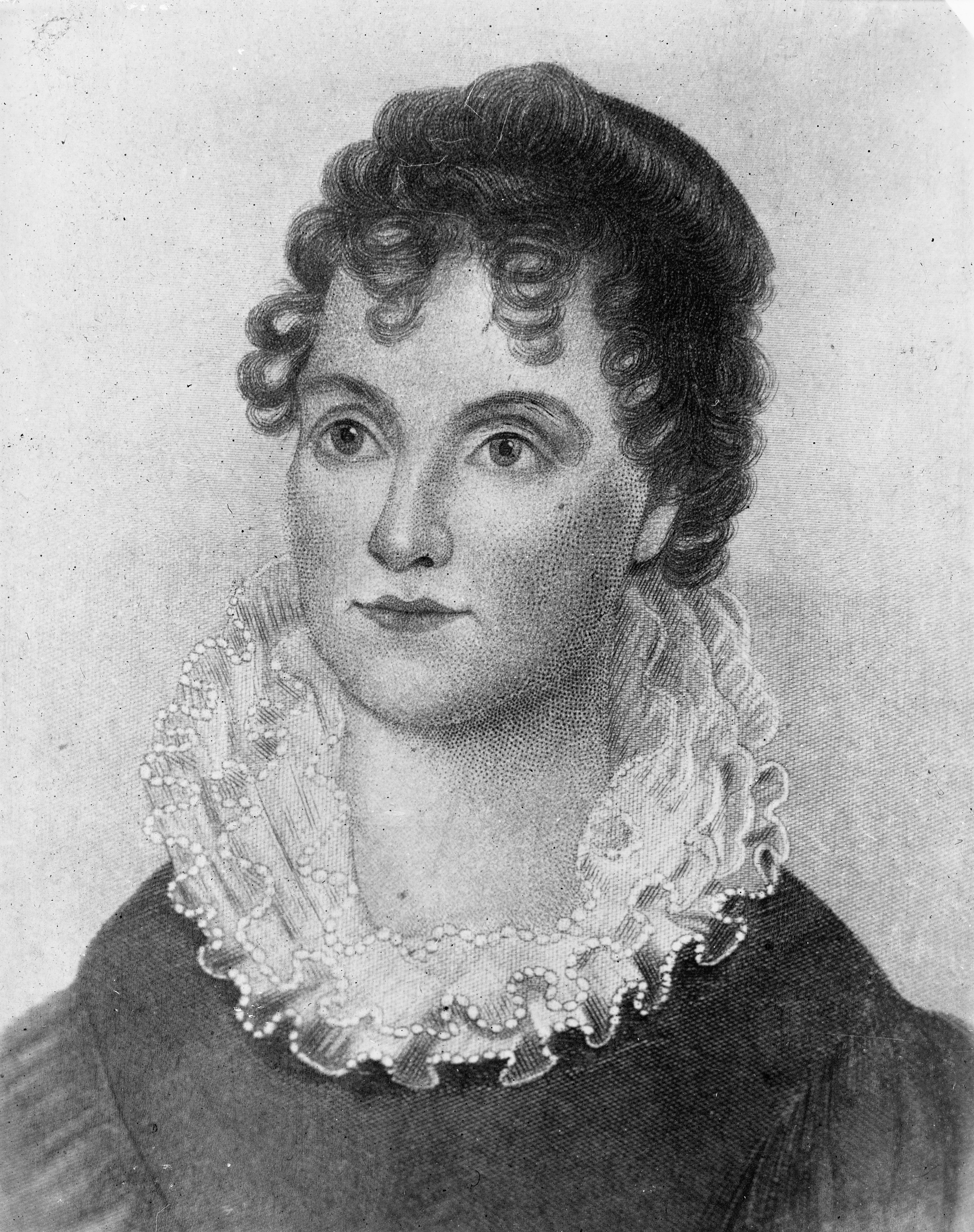 Hannah van Buren. Original engraving published in: The ladies of the White House, or, In the home of the Presidents / Laura Carter Holloway Langford. New York : Funk & Wagnalls, 1886, facing p. 553.